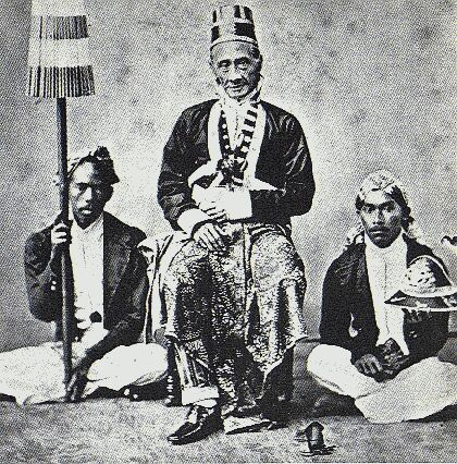 Portreait with Pajong